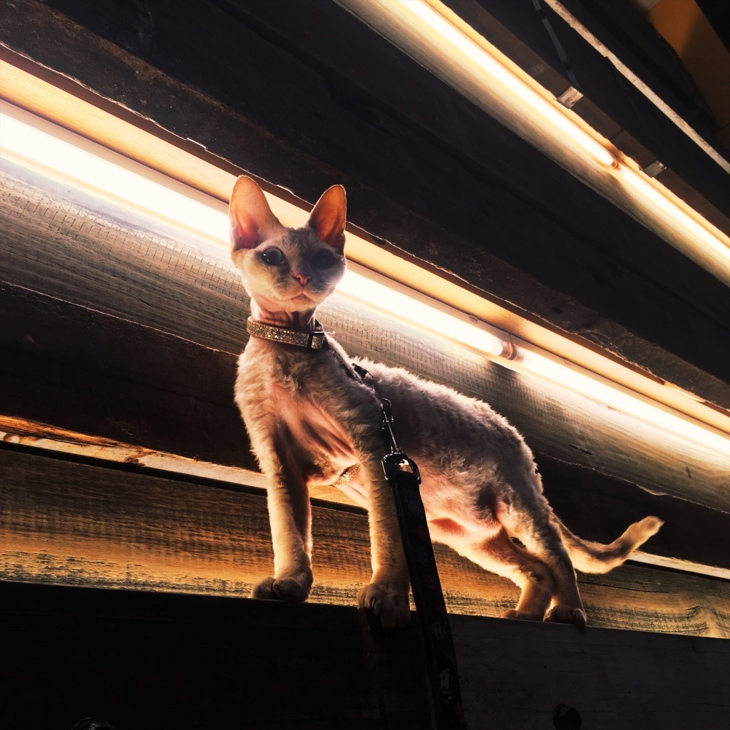 Devon rex kitten in a wooden light setup in Abbotsford, Australia